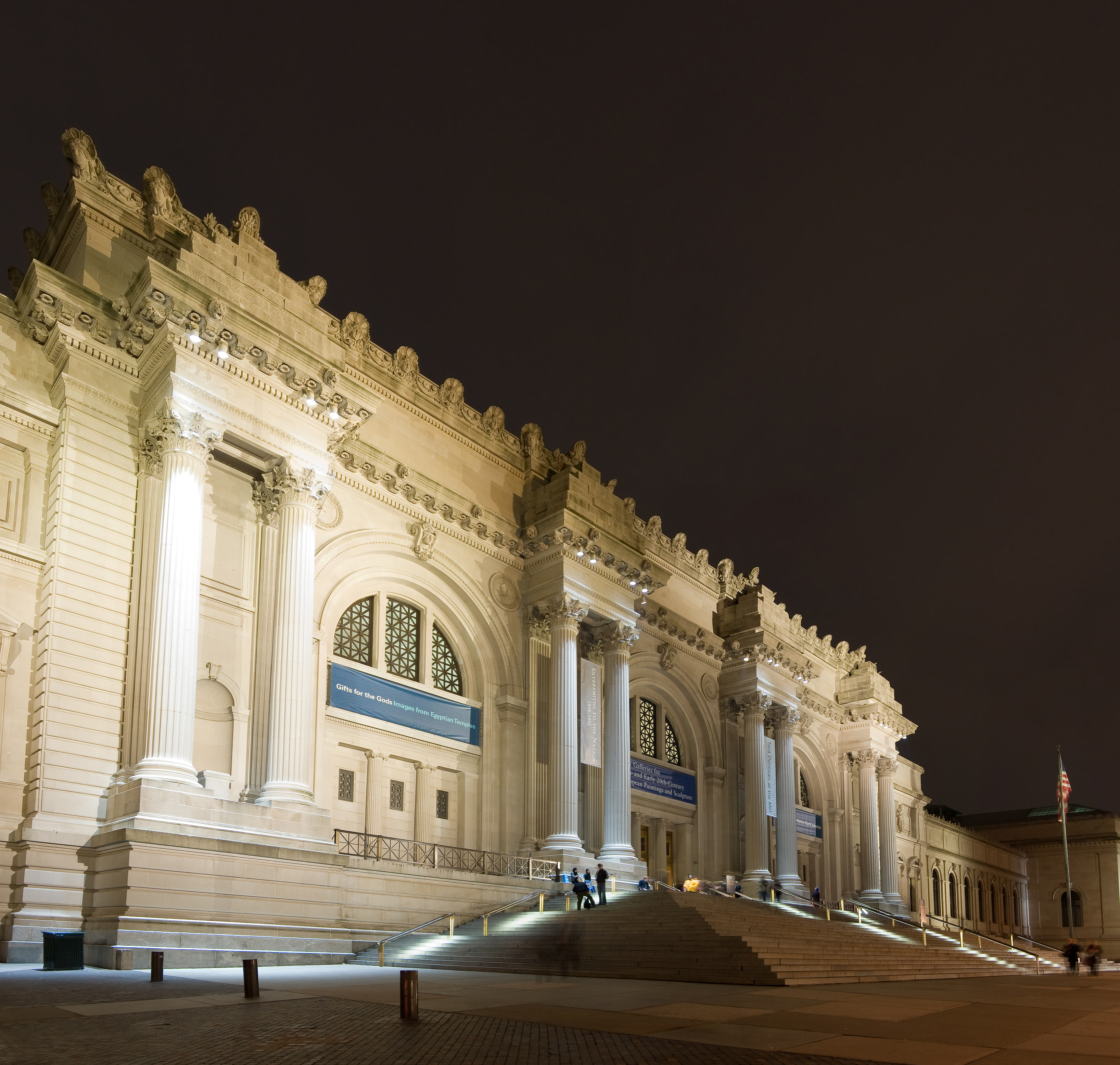 The Metropolitan museum of art in New York city.